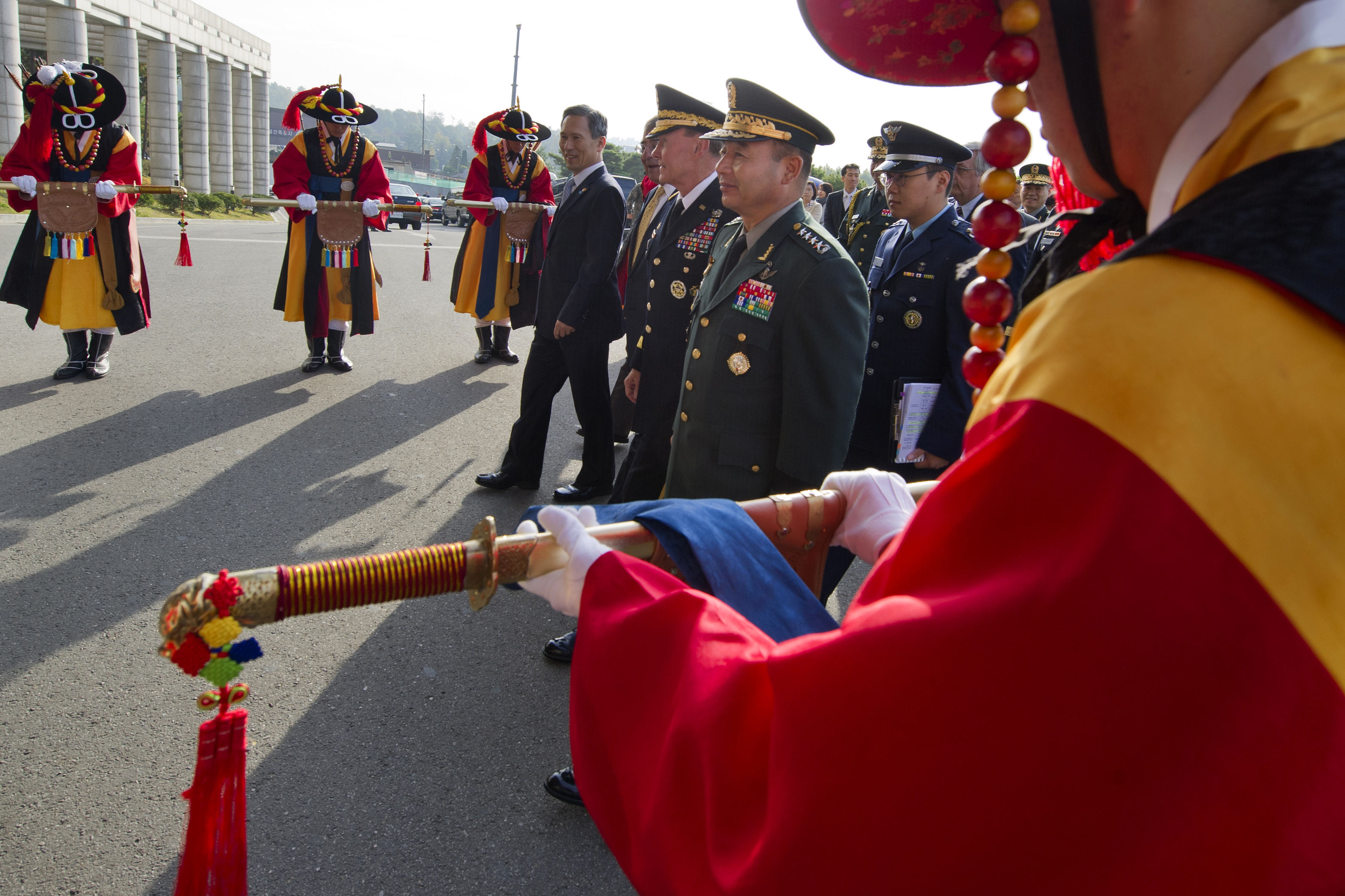 From left, South Korean Defense Minister Kim Kwan-Jin; U.S. Defense Secretary Leon E. Panetta; U.S. Army Gen. Martin E. Dempsey, chairman of the Joint Chiefs of Staff; and Gen. Jung Seung-jo, chairman of the South Korean Joint Chiefs of Staff, prepare to enter the Ministry of Defense in Seoul, South Korea, Oct. 27, 2011.